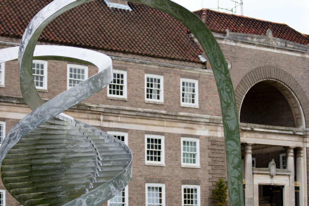 Clare College Cambridge - DNA sculpture by Charles Jencks in Cambridge/UK